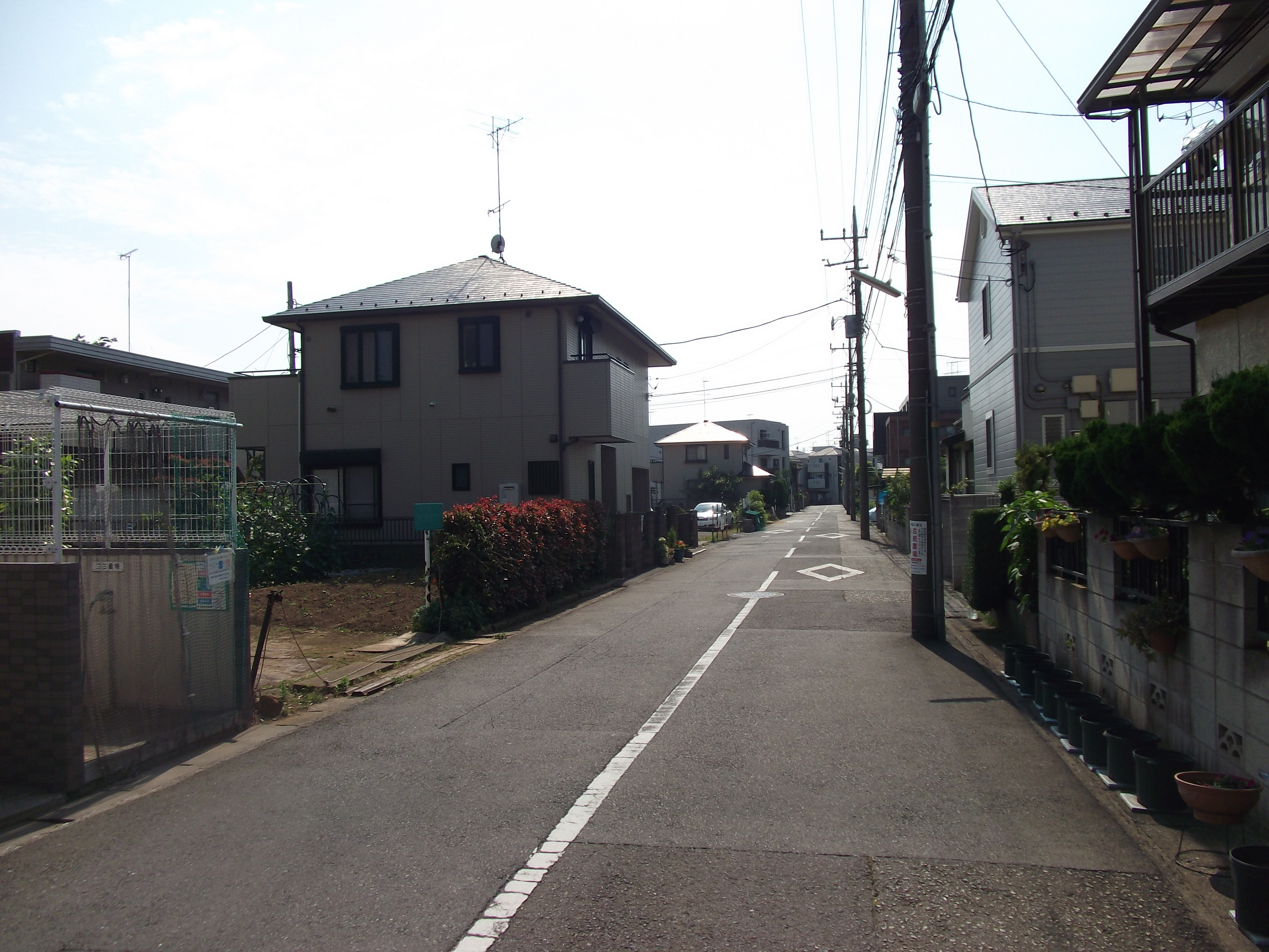 The scenery of Shimo-kodanaka, Nakahara-ku, Kawasaki.